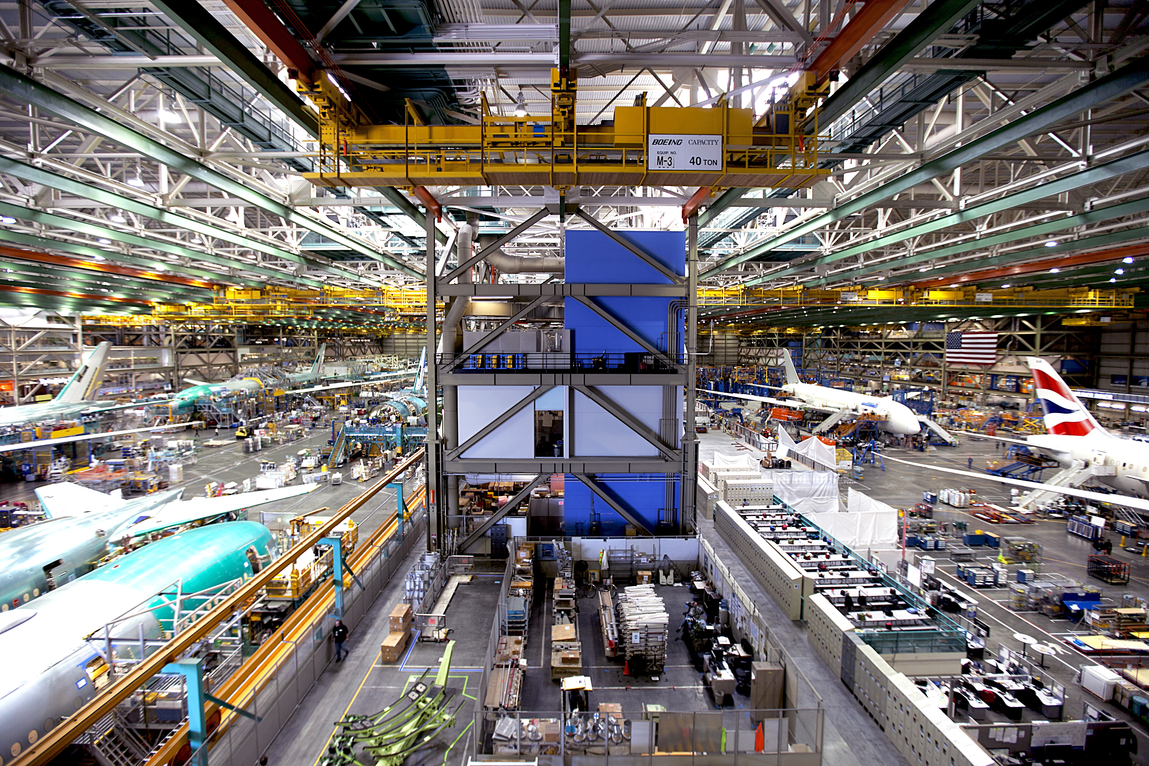 The Boeing Everett factory in Everett, where the 787 is assembled